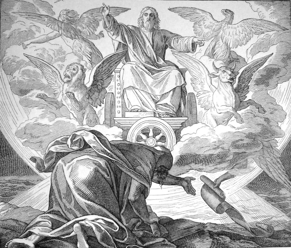 The vision of prophet Ezekiel